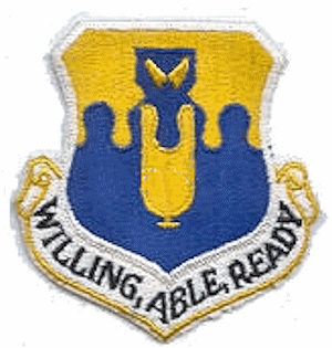 43d Bombardment Wing emblem. A copy of this emblem was down loaded from for use in my book “STRATEGIC AIR COMMAND An Organizational History” with the permission and approval of Marvin T. Broyhill, Webmaster.